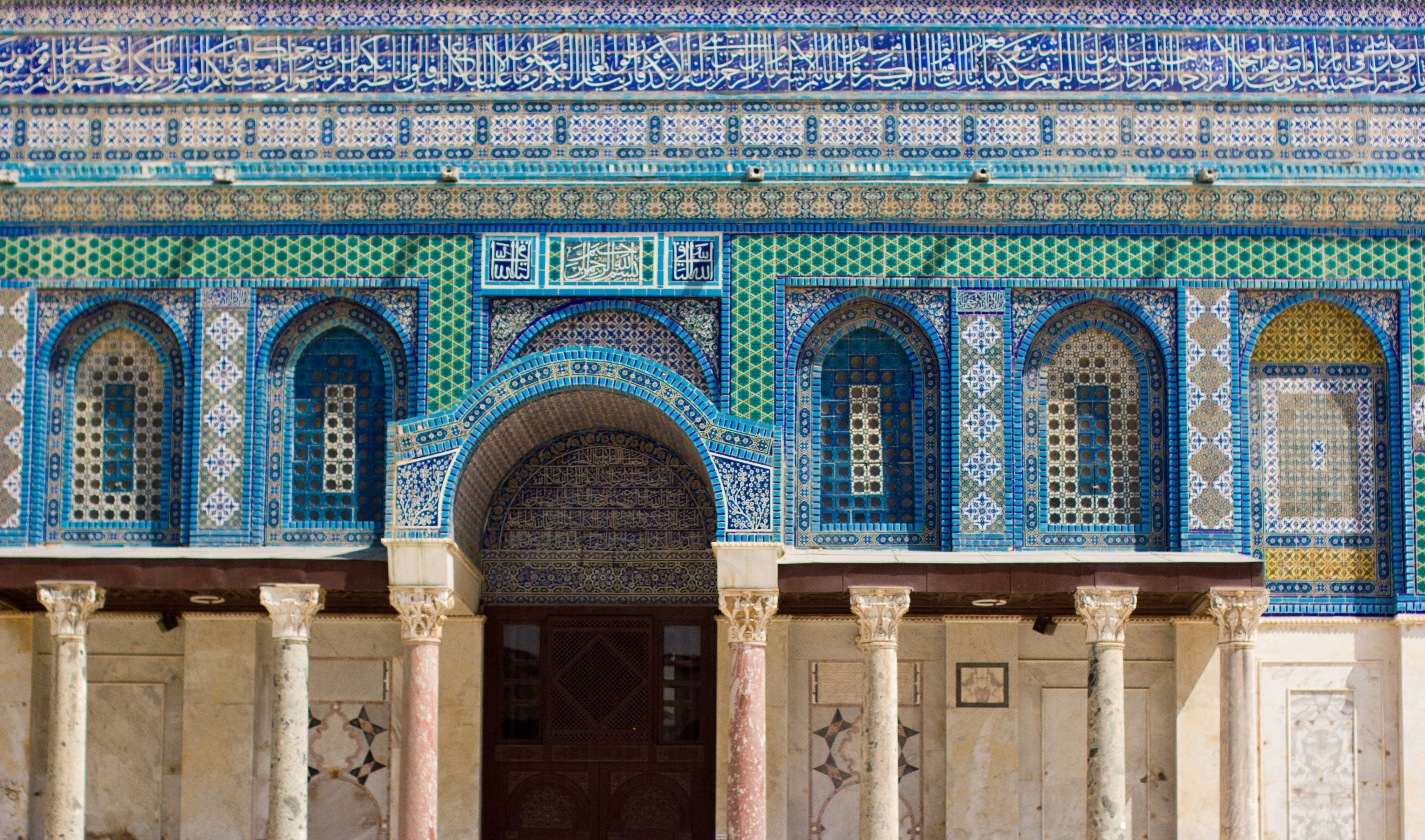 Image of Dome of the Rock in Jerusalem, Israel